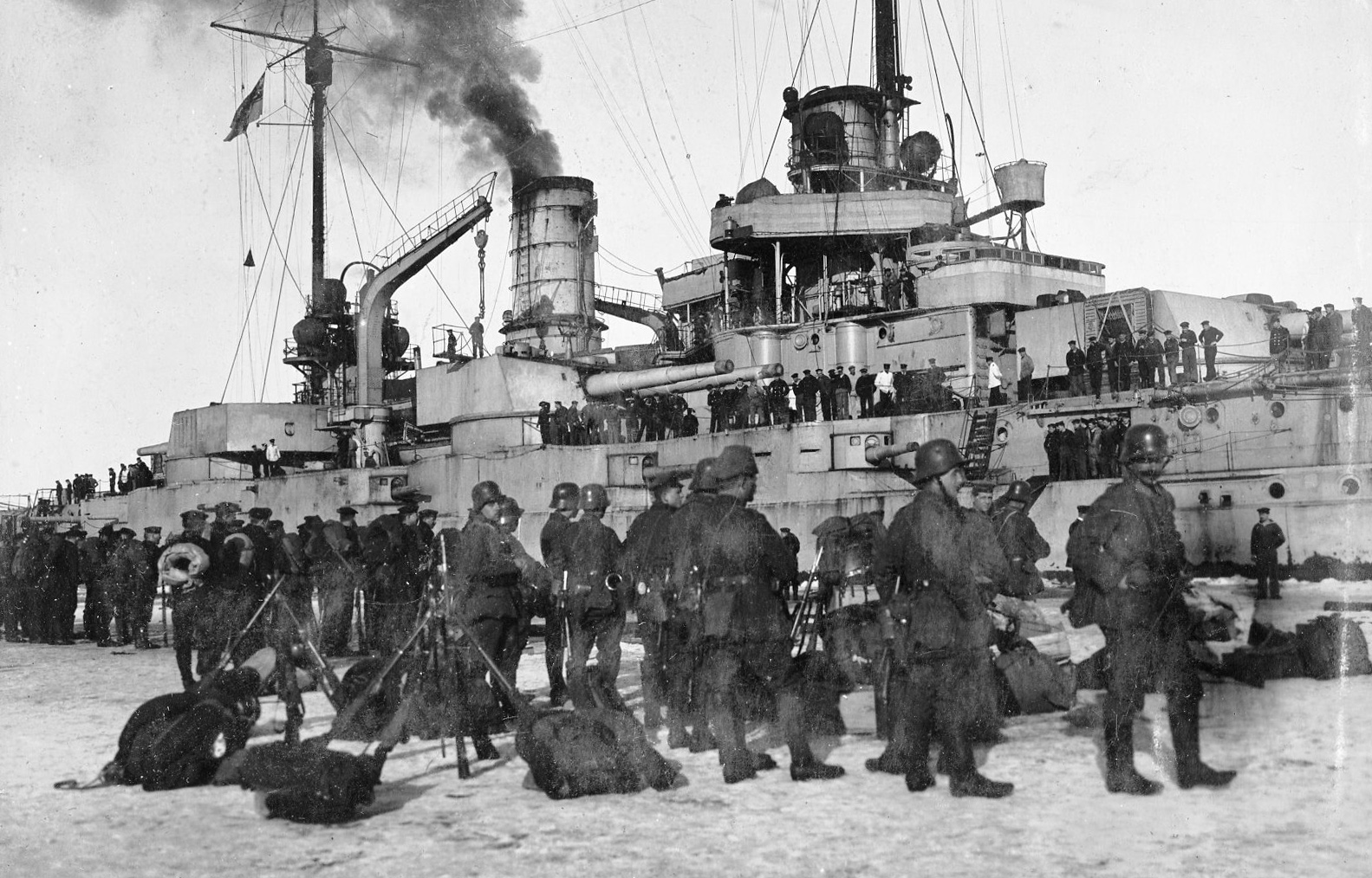 1918 Finnish Civil War: German troops landing Eckerö, Åland Islands.